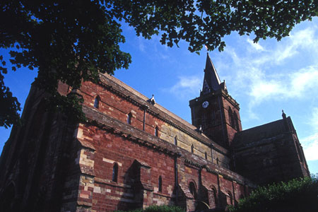 St Magnus Cathedral Kirkwall, Orkney Islands, Scotland